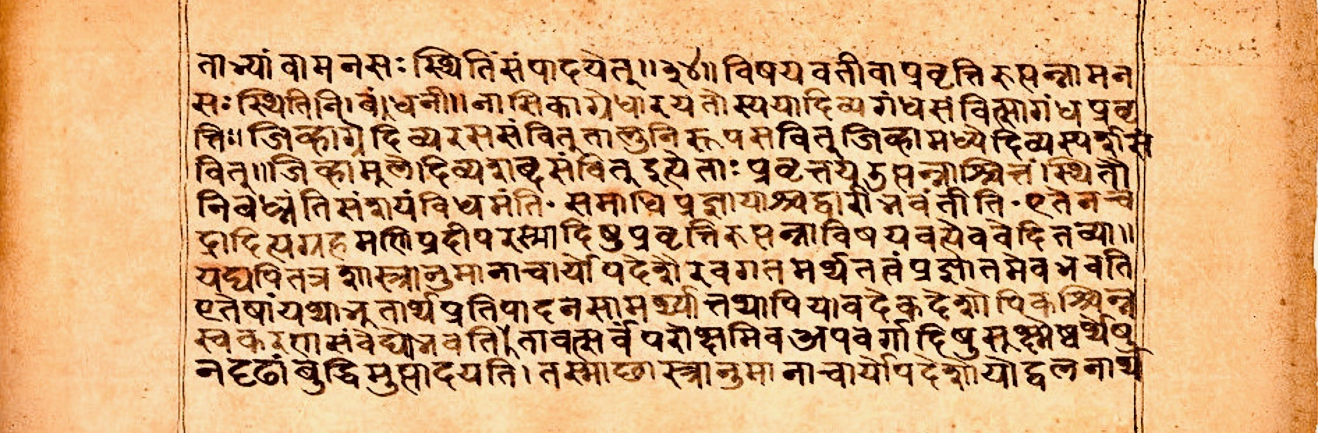 The Yogasutra is an ancient Hindu text on Yoga philosophy. As a sutra, it is terse and needs interpretation and commentary called bhasya in the Hindu tradition. The Yogasutra is a widely followed and translated text since at least about the late 1st millennium CE. The above photo is of a random, non-sequential sample page collection of a historic Yogabhasya manuscript. On the border in lower right corner is written "Ram", which sometimes marks the Hindu monastery tradition or Hindu temple the text was copied, studied or preserved in (in some cases, it represents the devotee's guru tradition). The manuscript may also highlight the colophon or some words with orange powder, corrections would normally be covered over with another color (in this manuscript, black) followed by notes on the margins. Personal commentary of a follower or another scholar are sometimes present in smaller script on the margins of a page. The above 19th-century manuscript is archived and preserved at the University of Pennsylvania, which holds the largest number of South Asian manuscripts in North America. Some of its collection has been digitized and released in an ongoing effort as of 2018. The photo above is of a 2D artwork of a text that is over 2,000 years old, from a manuscript that was produced before 1920. Therefore Wikimedia Commons PD-Art licensing guidelines apply. Any rights I have as a photographer is herewith donated to wikimedia commons under CC 4.0 license.